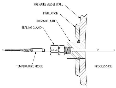 Small version of Conax Pressure Vessel Wall